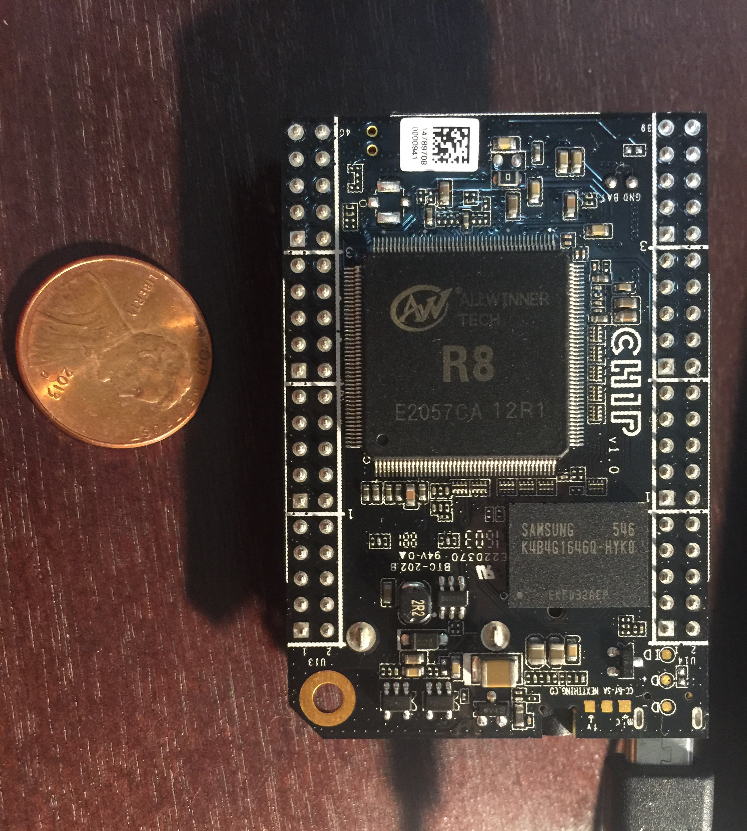 NextThingCo's C.H.I.P Linux singleboard computer